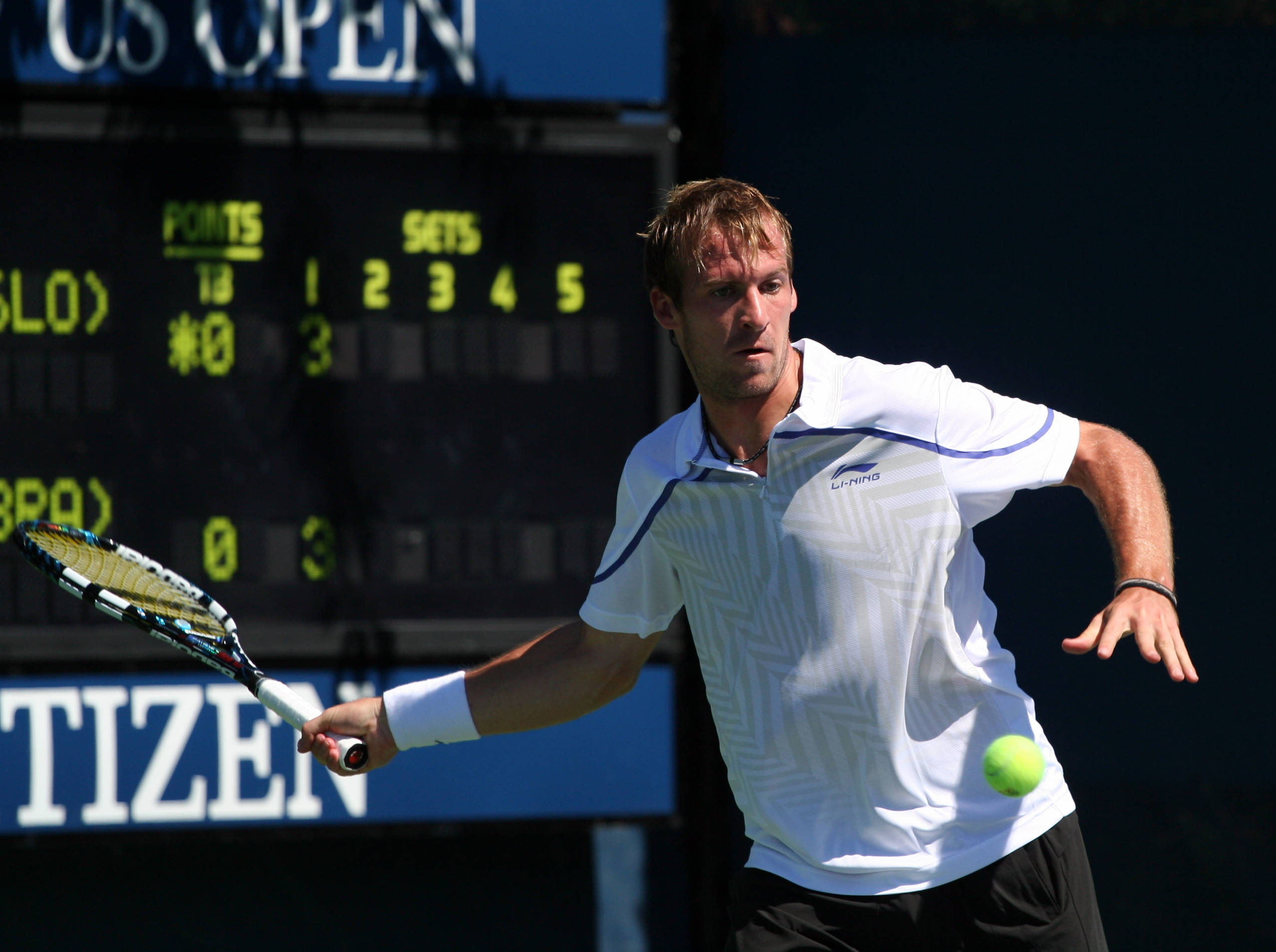 Grega Žemlja at the 2012 US Open